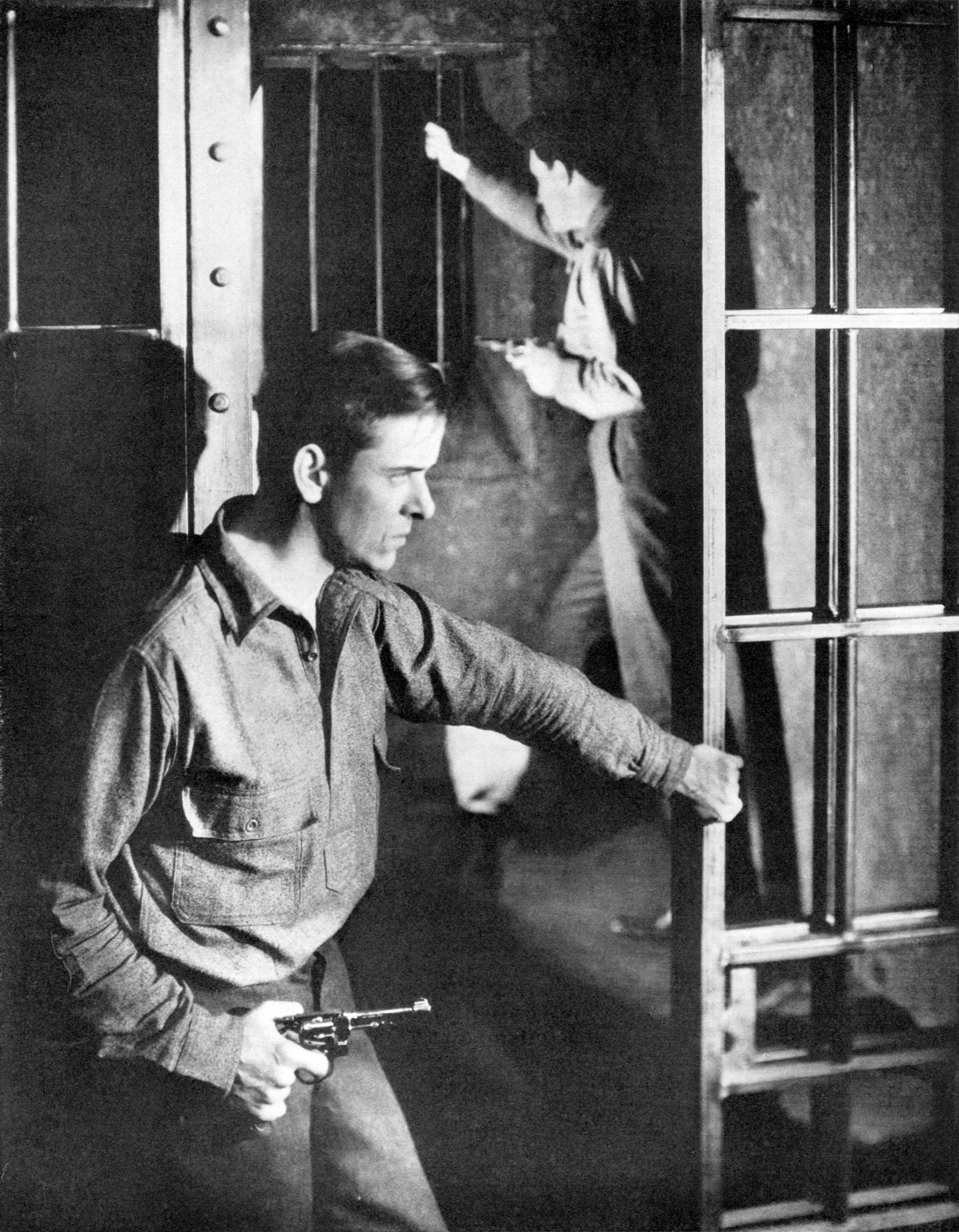 Promotional photograph for the 1930 play The Last Mile Caption reads as follows: A scene from the embattled death house which serves as a setting for John Wexley's grim and torturing bit of prison realism, "The Last Mile." In the foreground is Howard Phillips, and at the cell window is Spencer Tracy, who, as "Killer" Mears, is the leader of the death-house mutiny